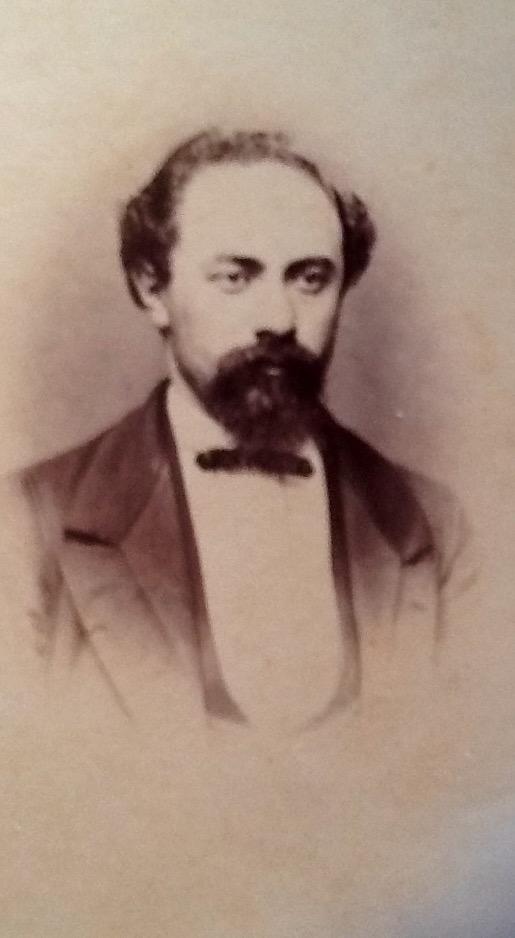 Photographic portrait